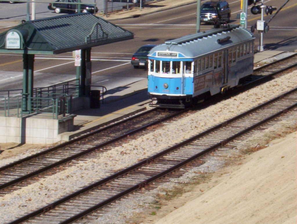 Image of a trolley on the Riverfront loop in Memphis, TN Photo made by: Thomas R Machnitzki I made this photo myself, feel free to use it.